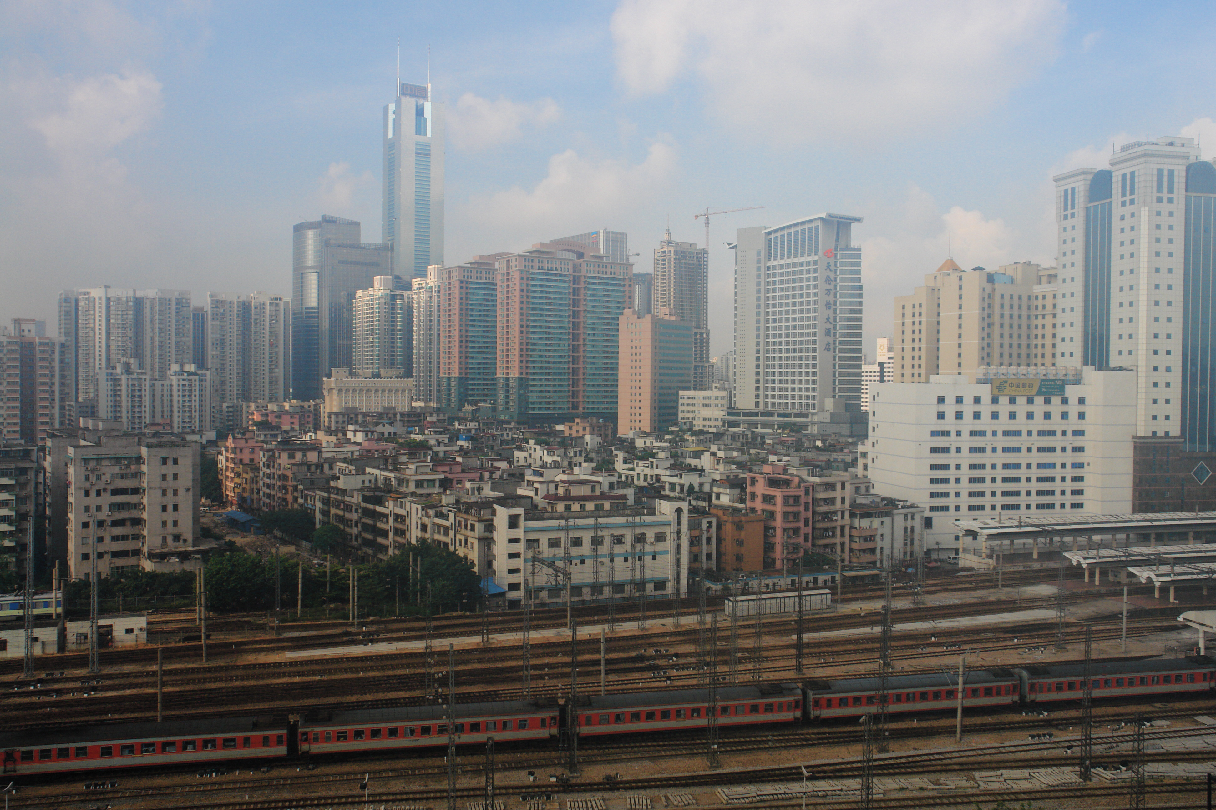 A shot from the Ramada Plaza hotel behind the Guanzhou East train station.